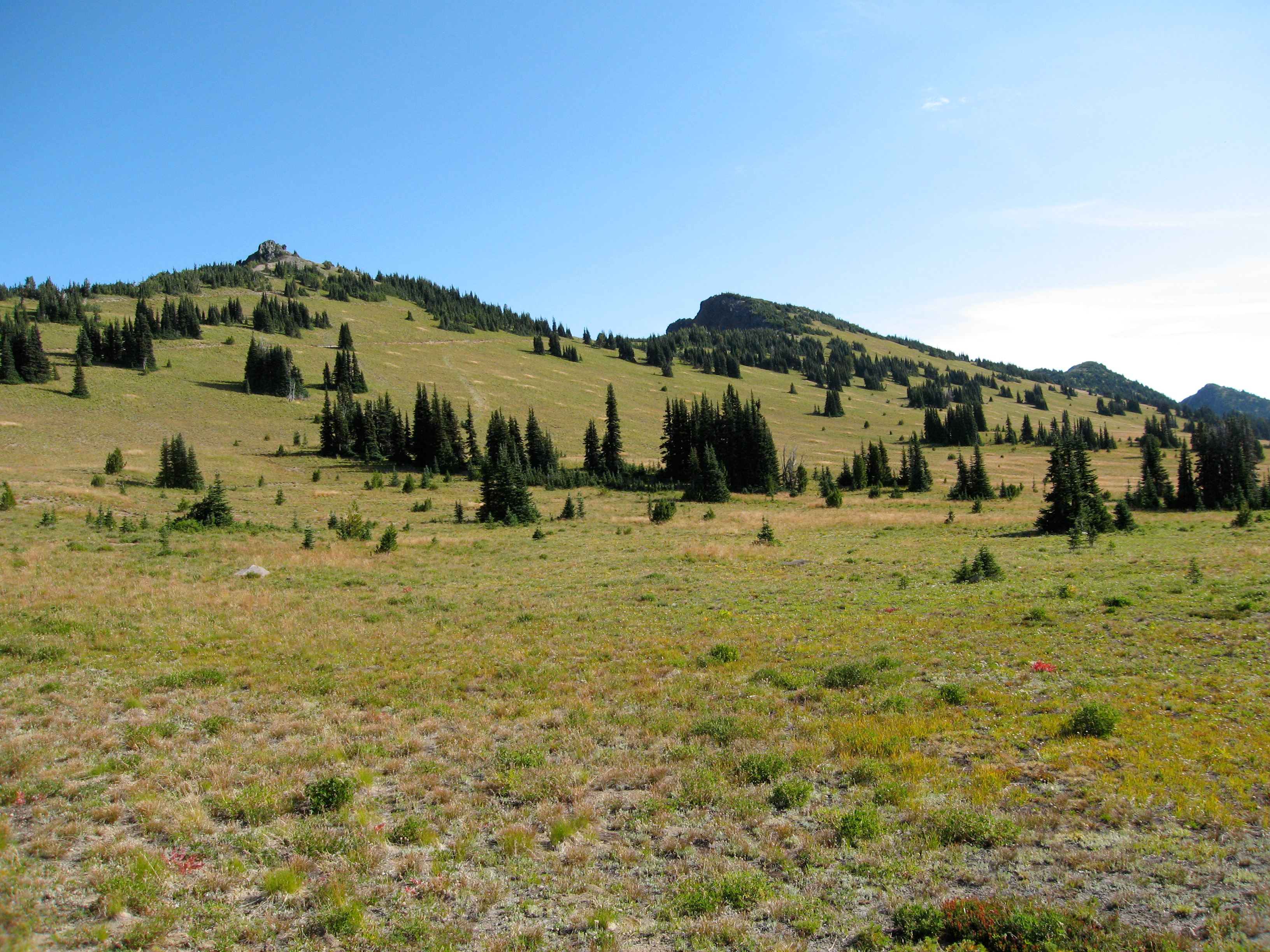 View of Yakima Park and Sourdough Ridge from near the Sunrise lodge, Mount Rainier National Park.